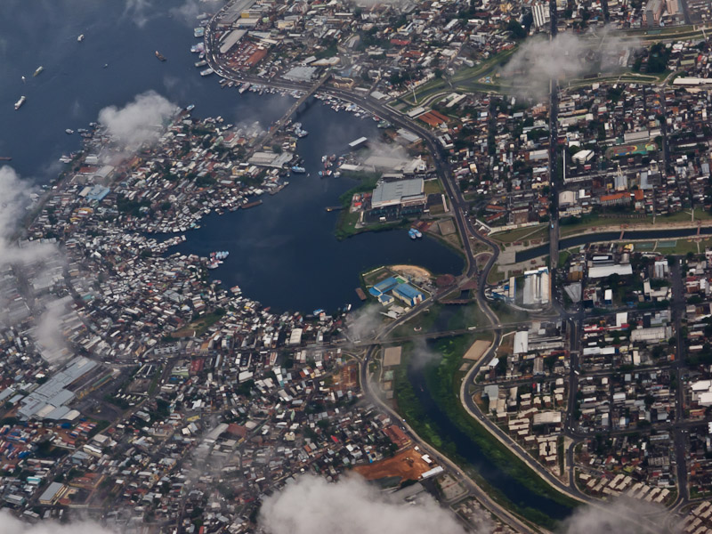 This creek is at the center and oldest part of Manaus